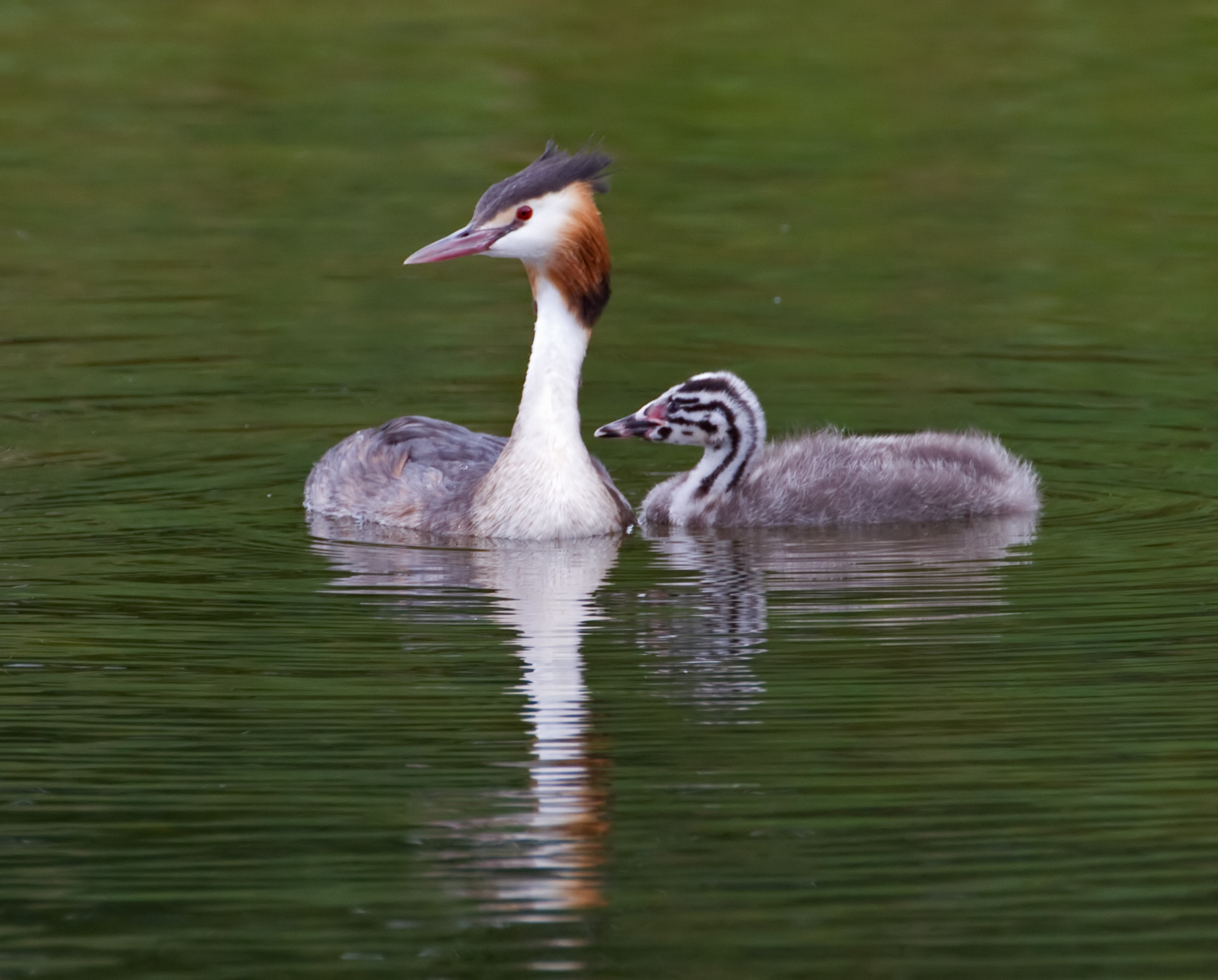 Grebes Mother and Chick